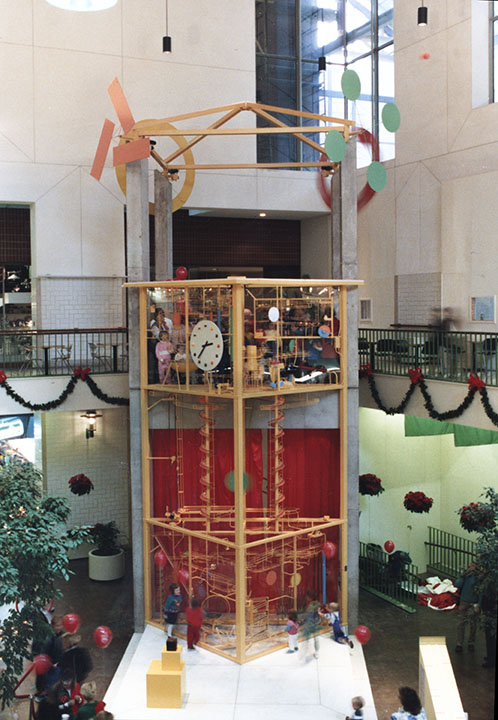 Located in the heart of Pennsylvania's capital city, the sculpture at Strawberry Square shopping district features a clock partially powered by the movement of rolling balls. Balls climb 46 feet to the second level of this large space so that visitors can see the complex movements up close on both stories. Colored wheels spin, pleasant chimes ring, and moving balls mesmerize.